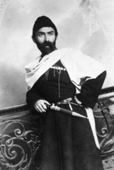 Kosta Xetagurov (Khetagurov) is the founder of the modern Ossetic literature. The poet is famous not only among the Ossetes.